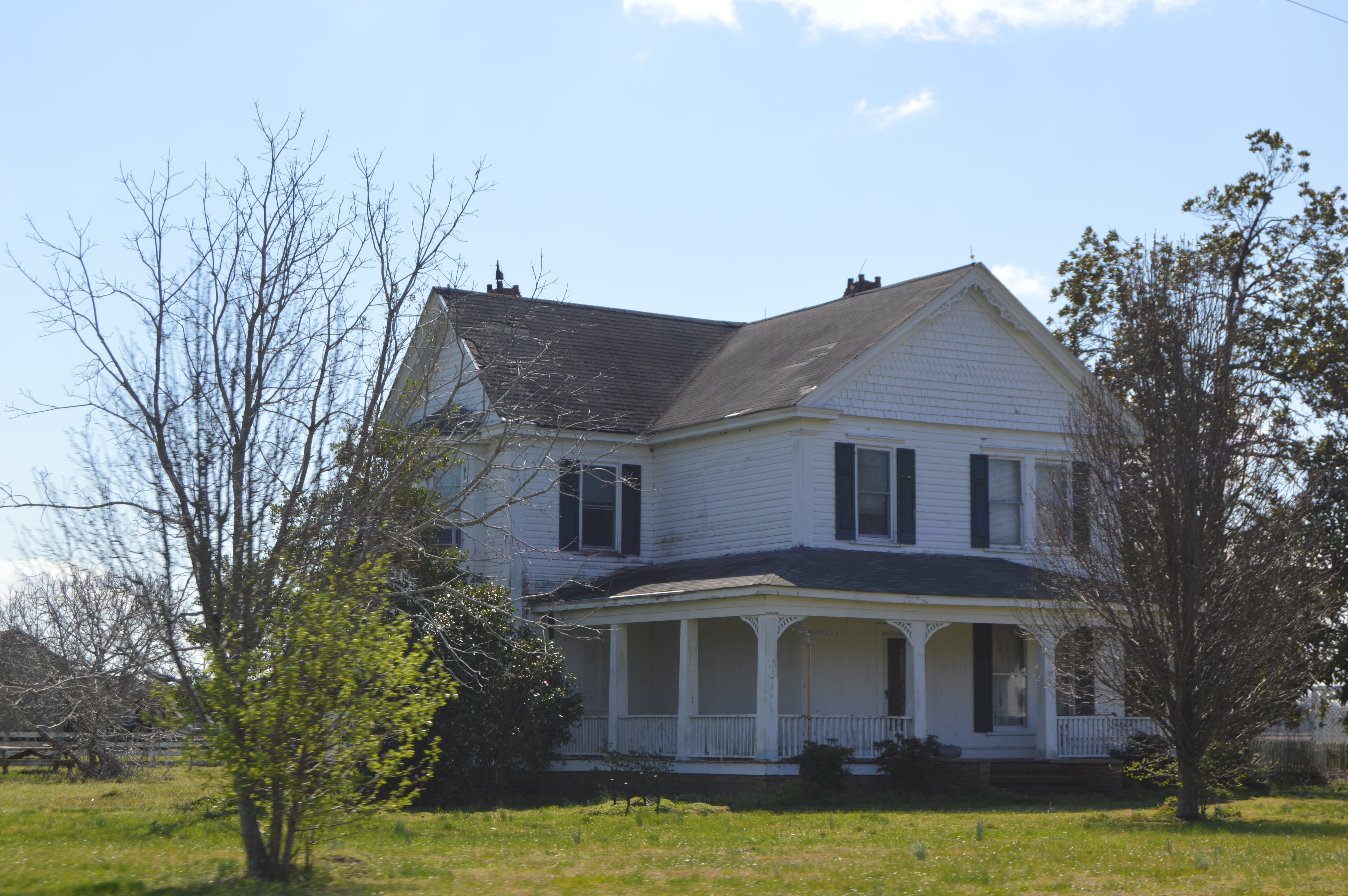 Roadside view of a house along U.S. Route 264 northwest of Nebraska in Hyde County, North Carolina, United States. It is part of the Lake Landing Historic District, a historic district that is listed on the National Register of Historic Places.